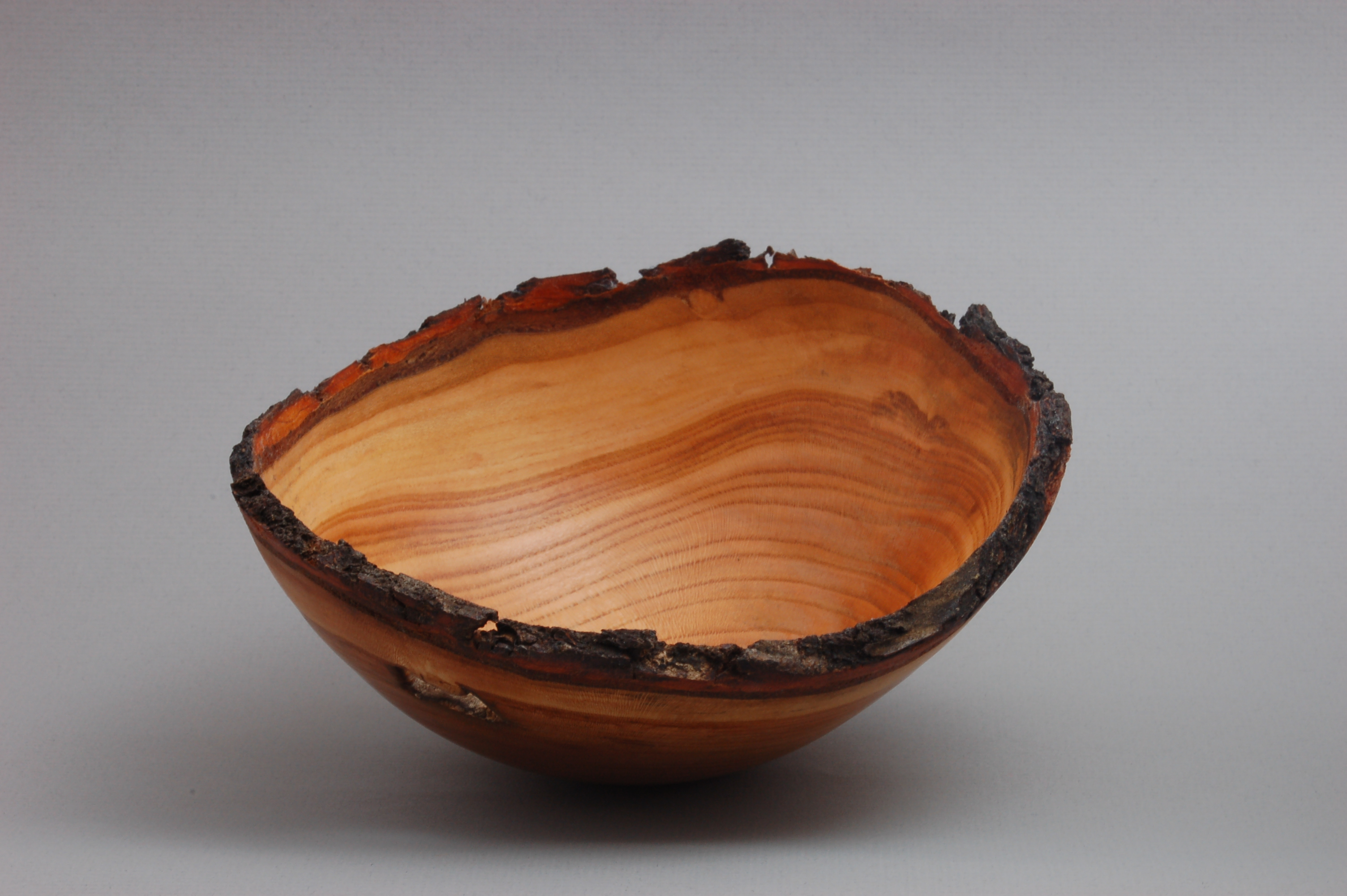 A natural edge turned wood bowl made of peach wood